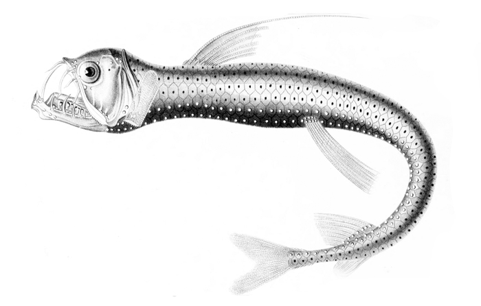 Chauliodus sloani